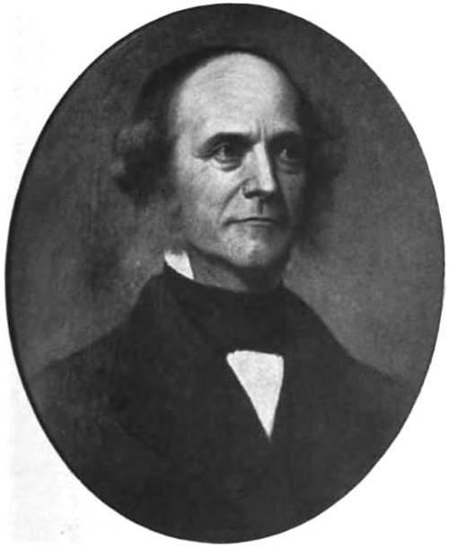 Horatio Bridge. From The Life and Genius of Nathaniel Hawthorne by Frank Preston Stearns, published by J. B. Lippincott Company, 1906, page 64.